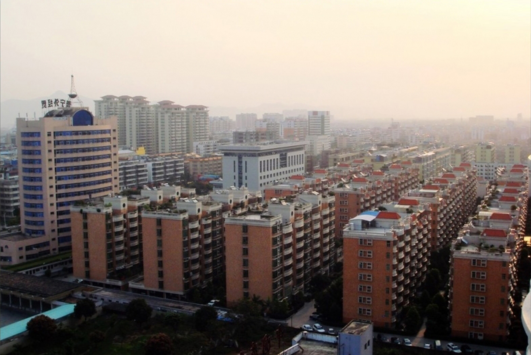 A view of Skyline of Urban of Puning in January , 2011